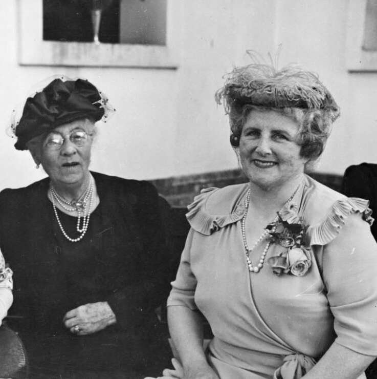 Dame Mary Hughes and Dame Enid Lyons – widows of former prime ministers – at Parliament House, Canberra.